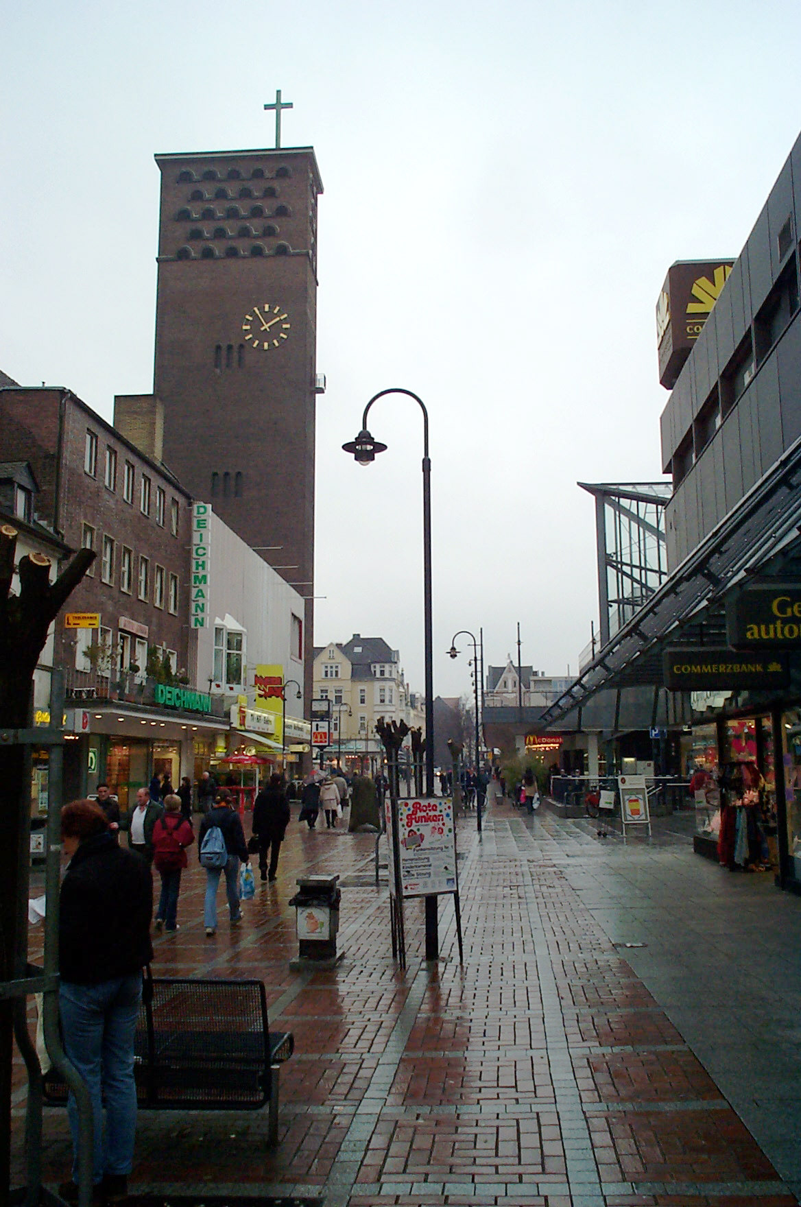 pedestrian area in Leverkusen-Wiesdorf, Germany